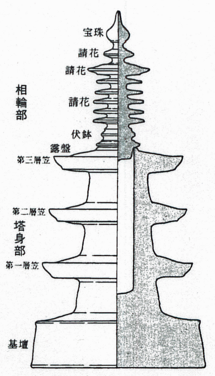 DESCRIBE "PAGOTA" BY ILLUSTRATION